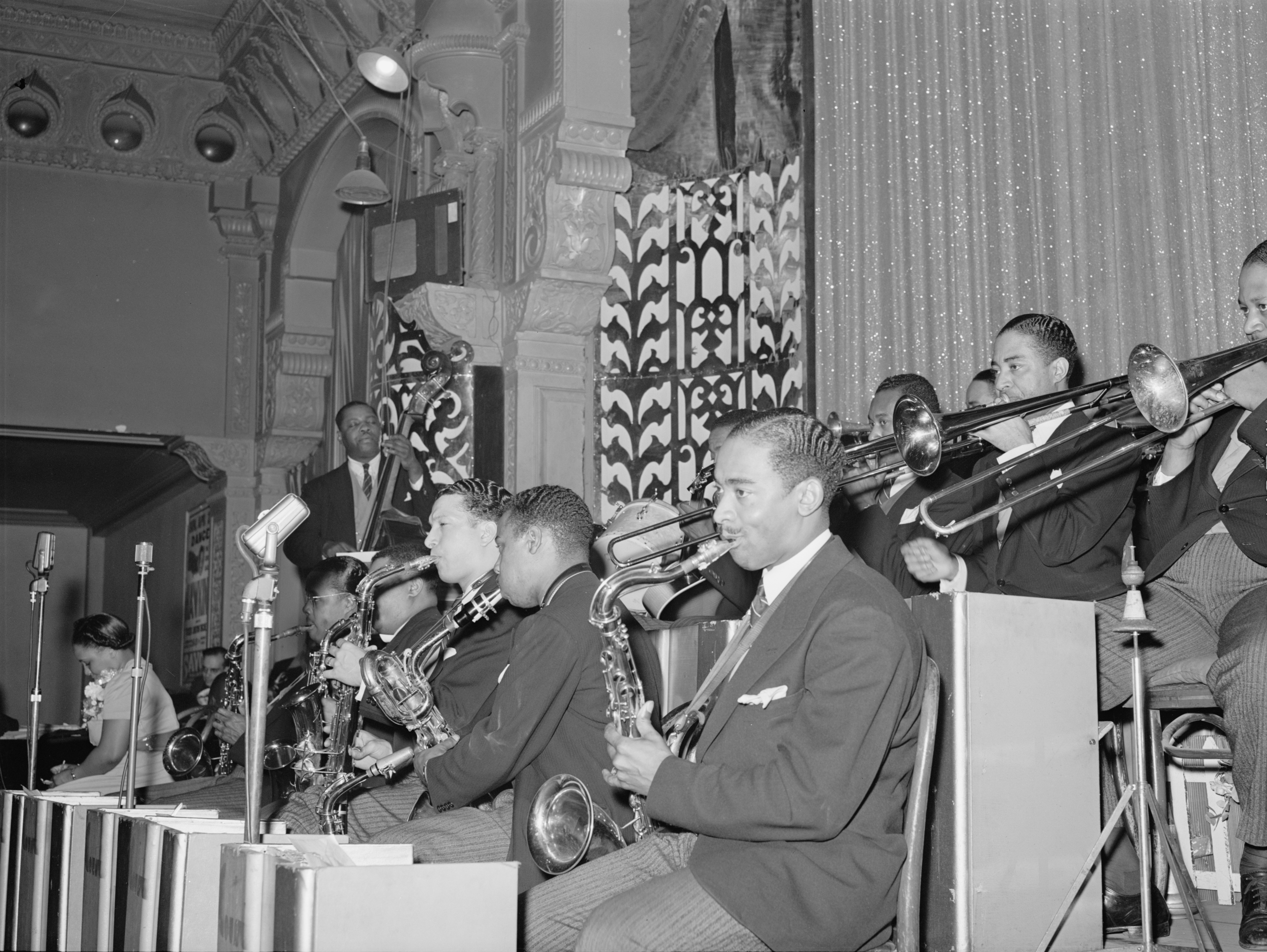 The band at the Savoy Ballroom. Chicago, Illinois